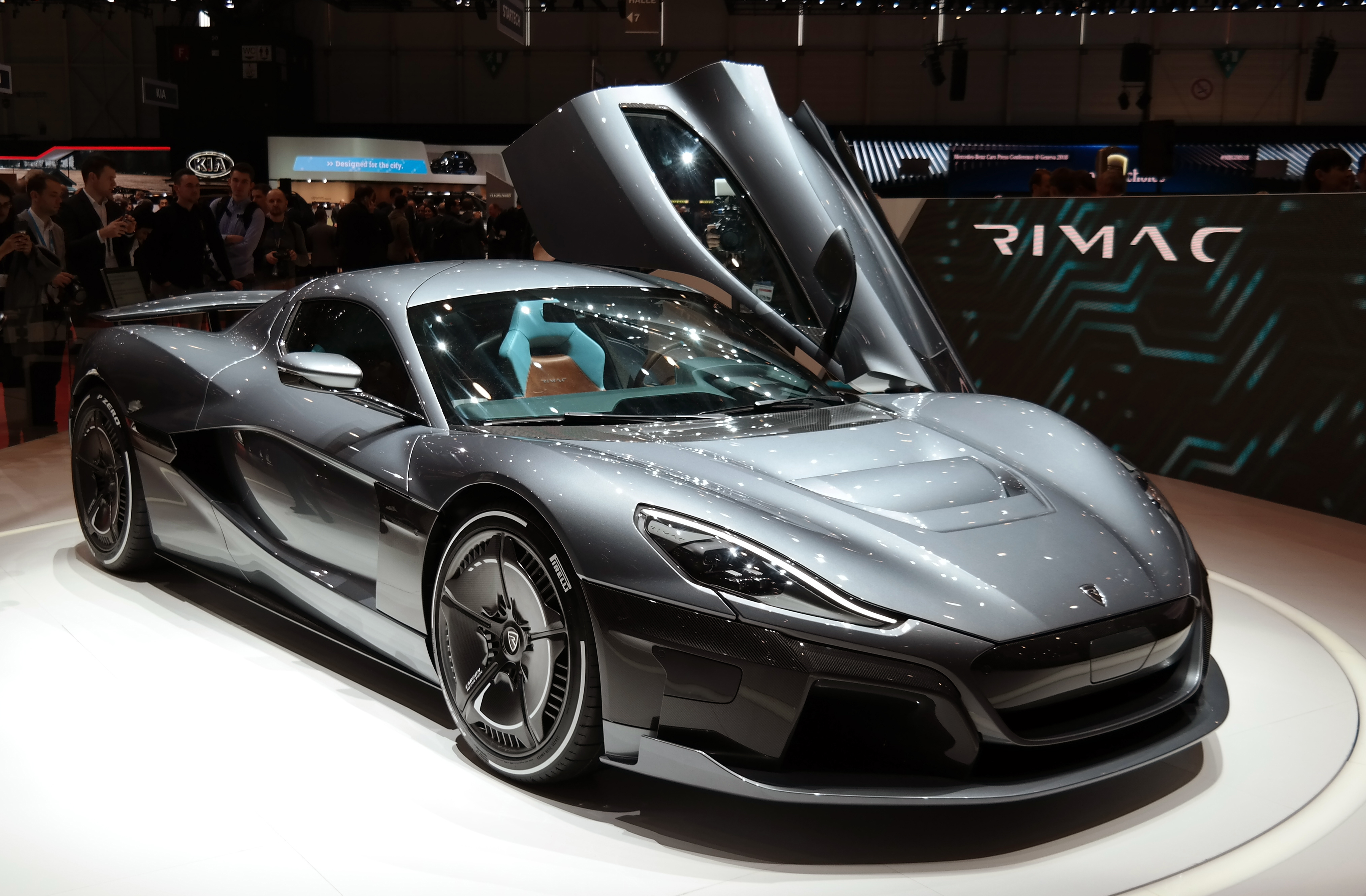 Rimac C_Two at the Geneva Motor Show 2018 (photo taken on the first press day)